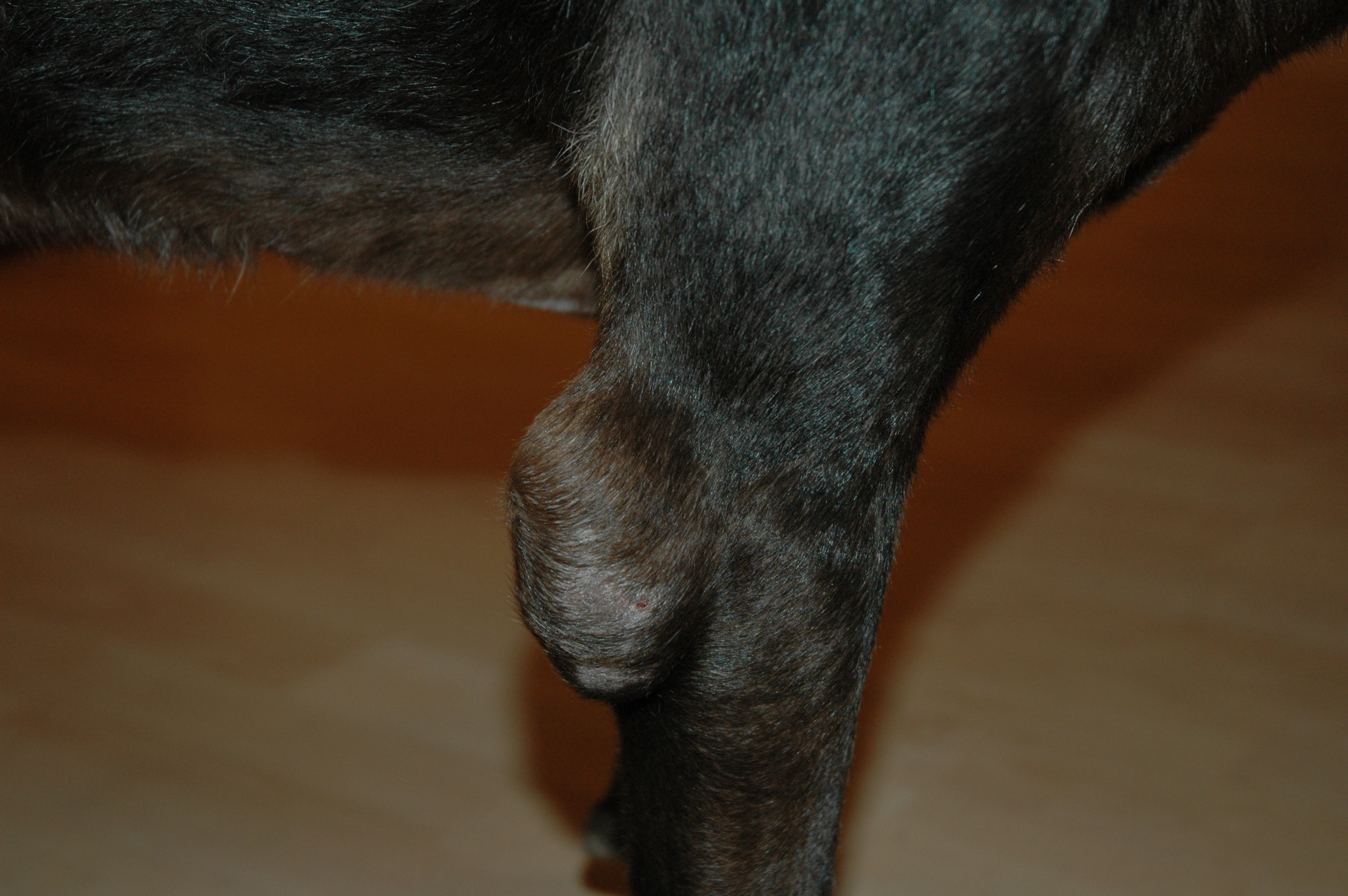 This is a hygroma on the right elbow of a black labrador retriever.